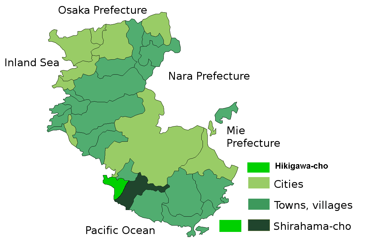 Map of Hikigawa before the Merger of March 2006